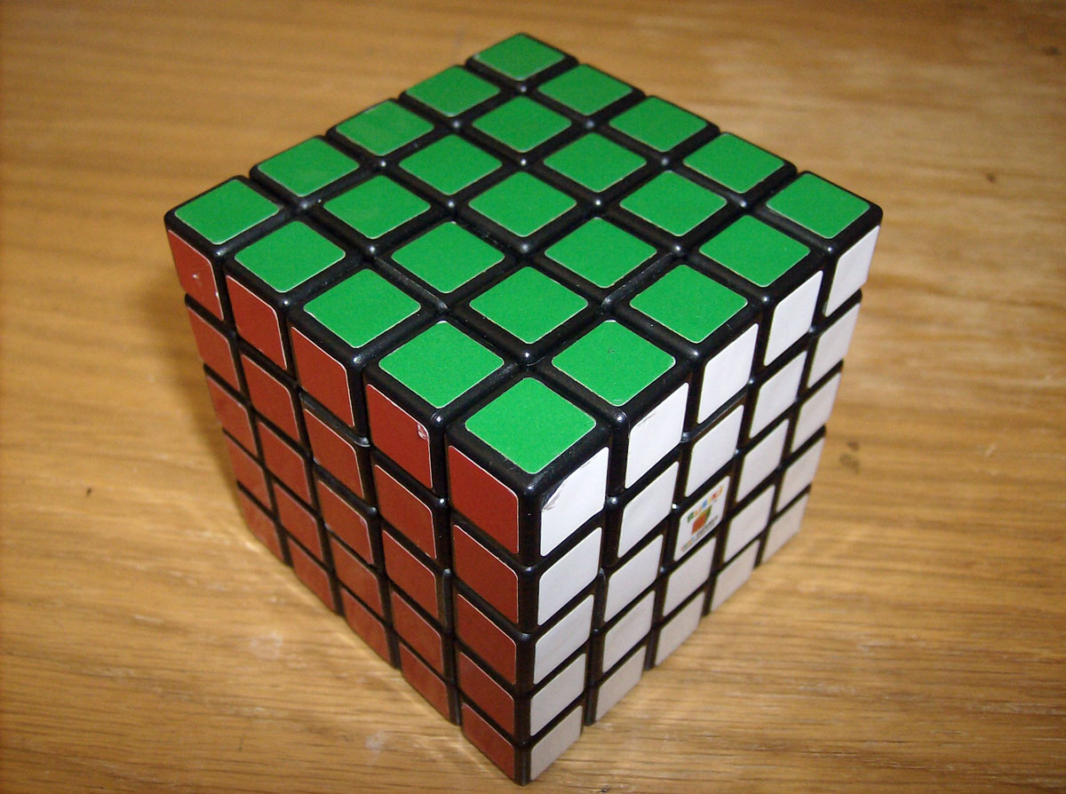 A Professor's Cube prior to disassembly.